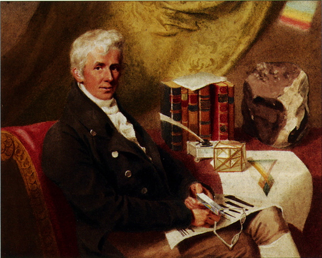 This is a digital image found at [1], which reproduces the image and a copy of JAMES SOWERBY, HIS PUBLICATIONS AND COLLECTIONS Lawrence H. Conklin, an article that appeared in Mineralogical Record, volume 26, July-August, 1995. Mr. James Sowerby, illustrator and biologist, is depicted by Mr. Heaphy, artist, as seated with his documents, apparatus and a famous specimen known as described as the Yorkshire meteorite.